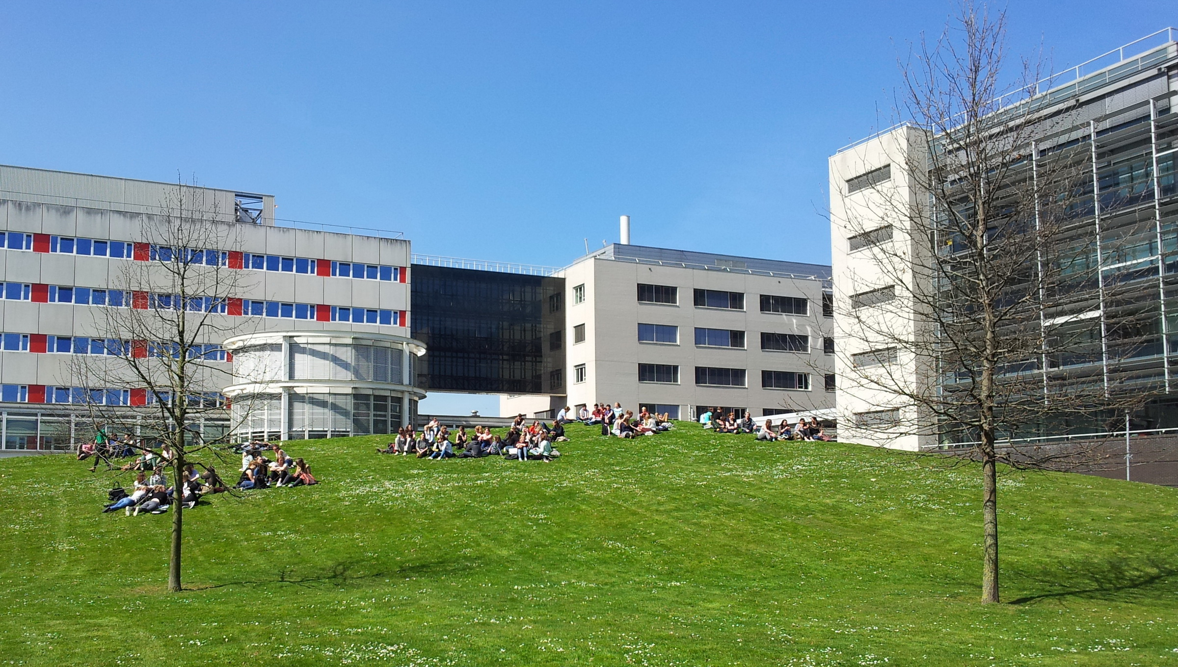 Maastricht, the Netherlands. Students relaxing in front of the main bilding of the Faculty of Health, Medicine and Life Sciences (FHML), part of the Maastricht Health Campus of Maastricht University in Randwyck.